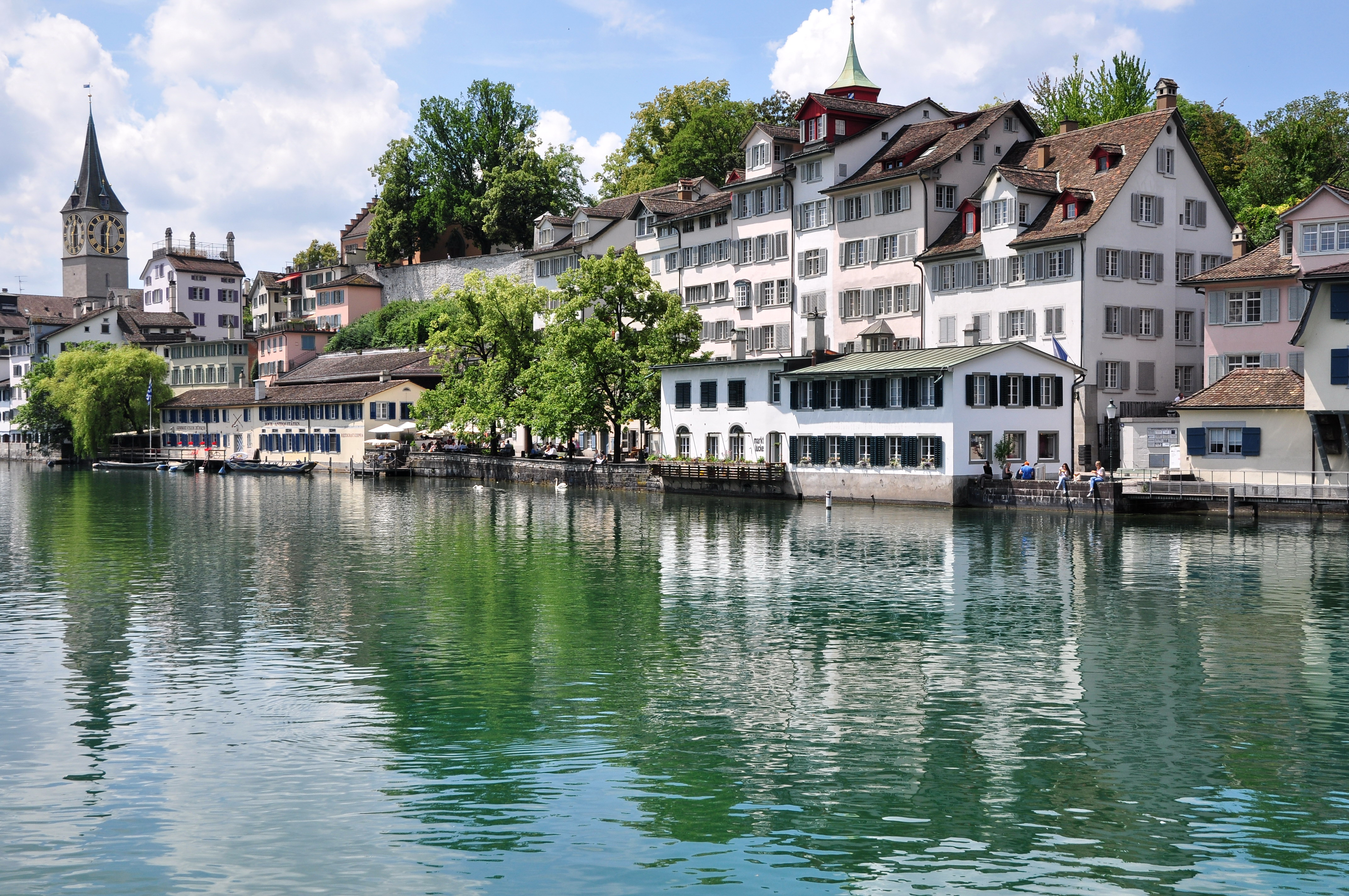 Zürich : Schipfe respectively Lindenhof with remains of the Roman and 11th century castle (Pfalz/Palatinate) as seen from Limmatquai.